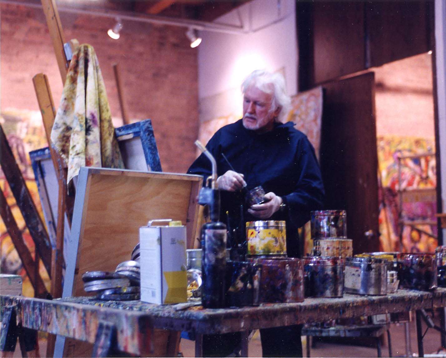 Matt Lamb in seinem Atelier in Chicago. Matt Lamb Aministration 2002.